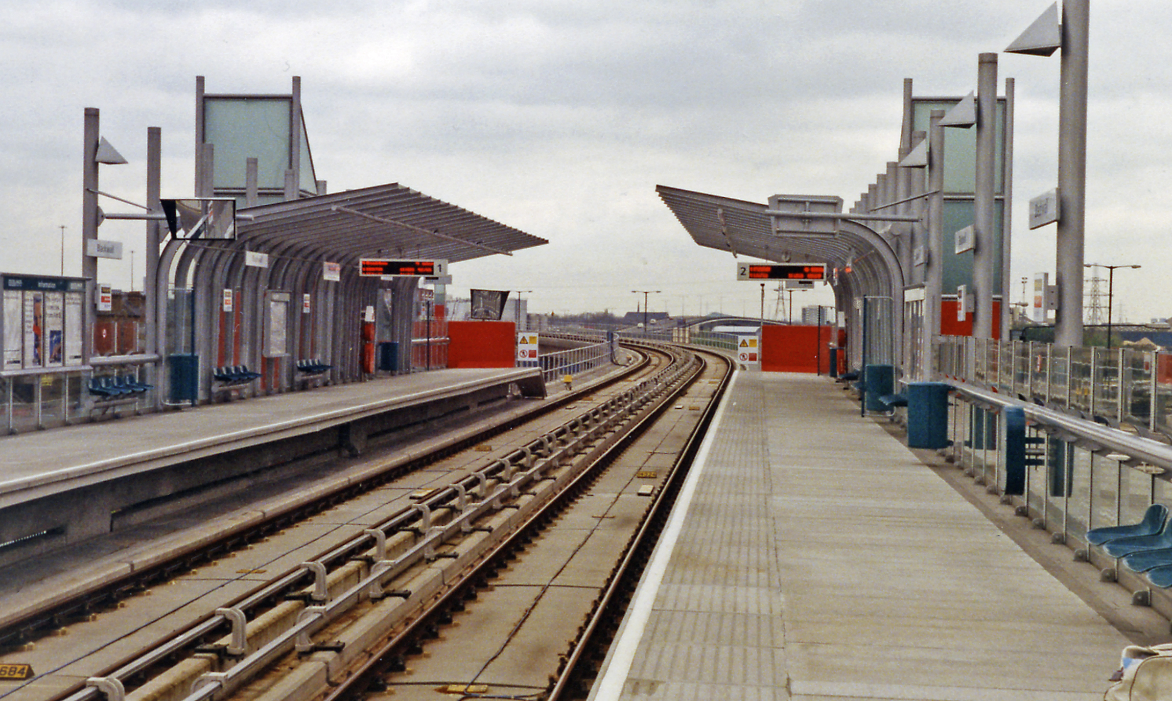 Blackwall station DLR, eastward 1994. View eastward, towards Beckton at this time.